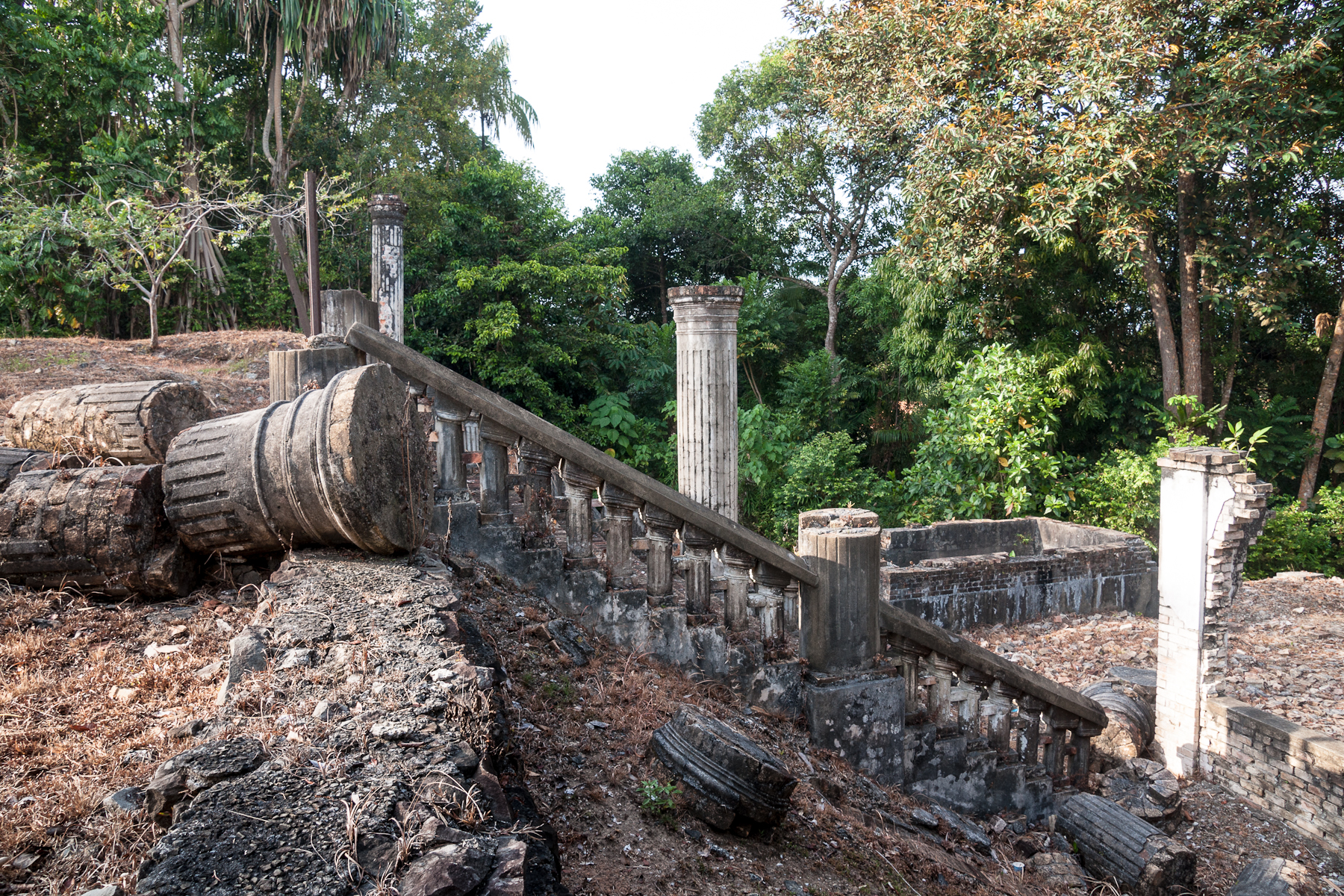 Kinarut, Sabah: The Kinarut Mansion